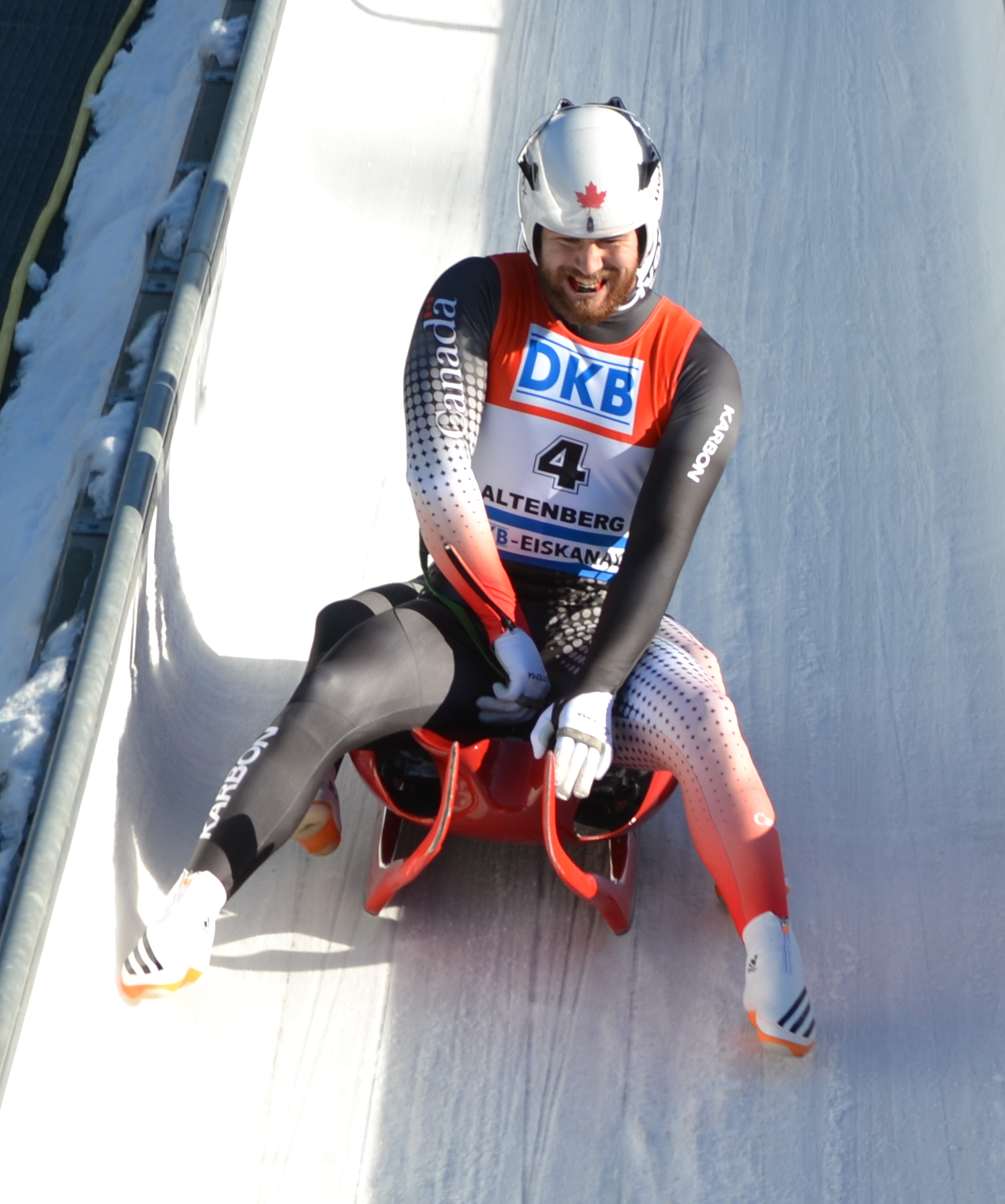 Luge world cup race season 2014/15 in Altenberg/Germany, 19th to 22nd Februar 2015. Day 2: Nations cup races.